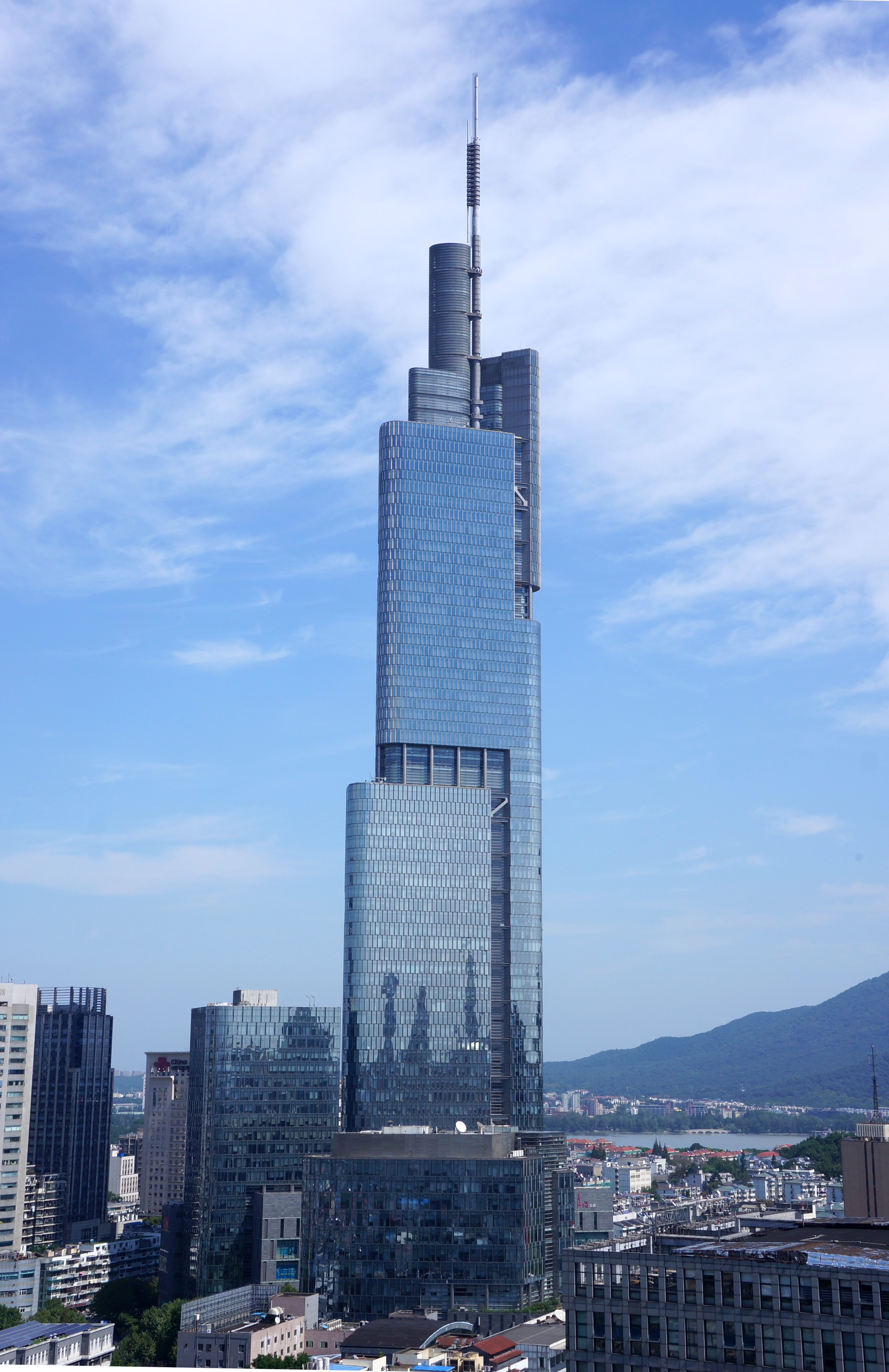 Zifeng Tower in Nanjing, taken in 2017